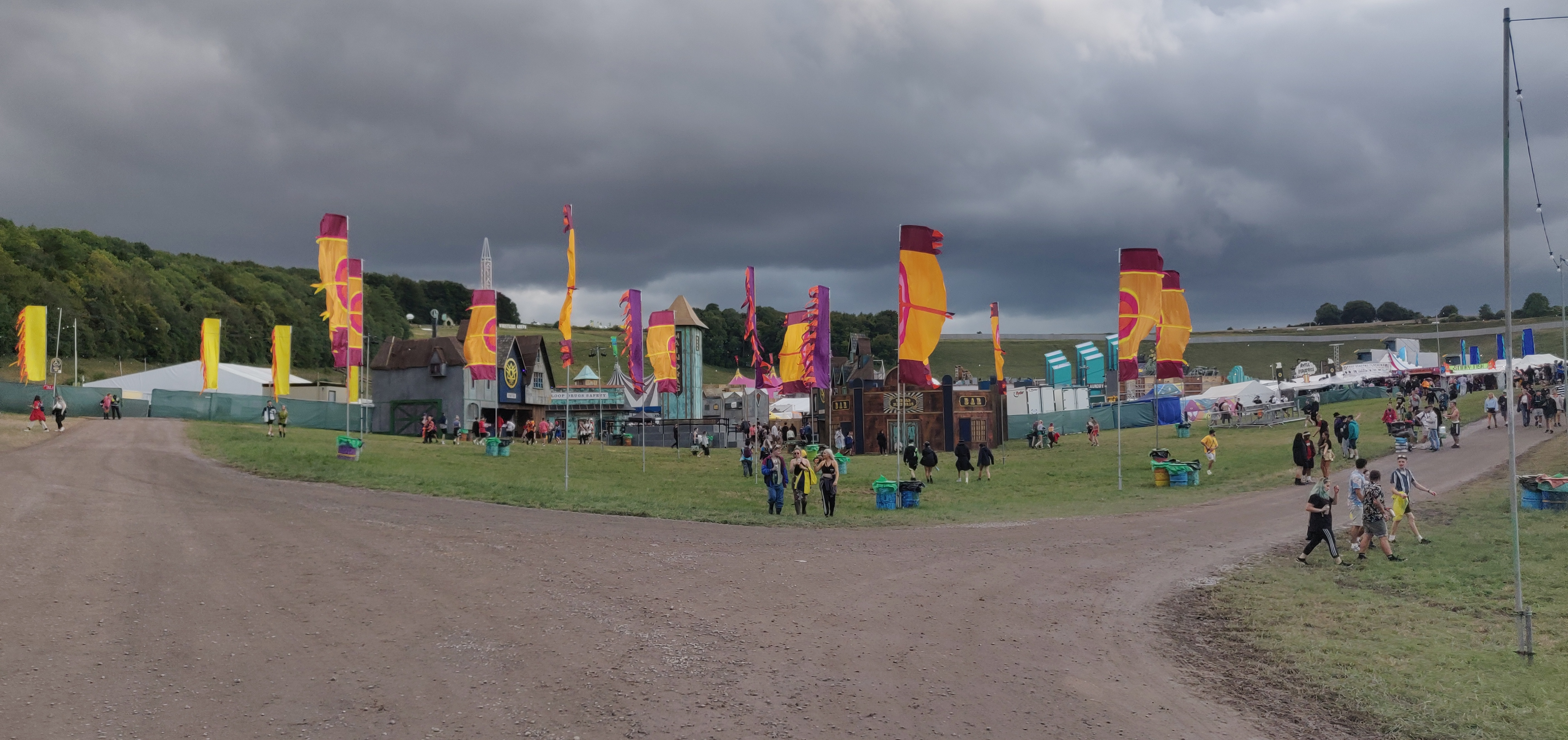 View into the Main Drag at Downtown, Boomtown Fair 2019